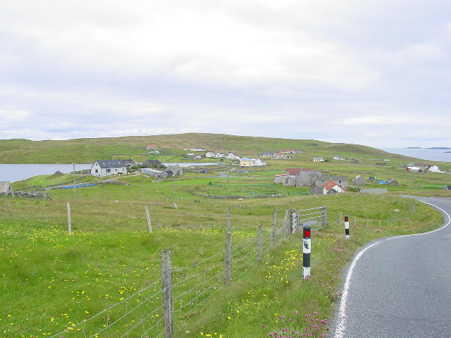 The road leading into Isbister, Whalsay. Approaching Isbister from the Symbister road. Loch Isbister is on the extreme left.